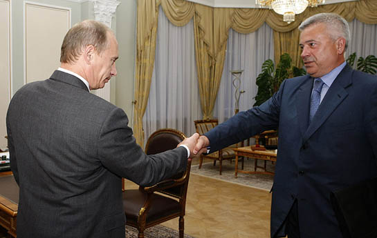 Prime Minister Vladimir Putin met with Vagit Alekperov, president of LUKoil